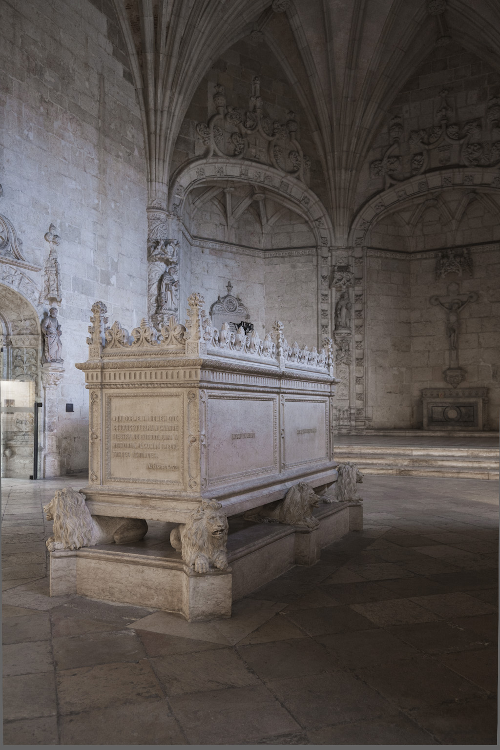 Túmulo de Alexandre Herculano, Sala do Capítulo, Mosteiro dos Jerónimos